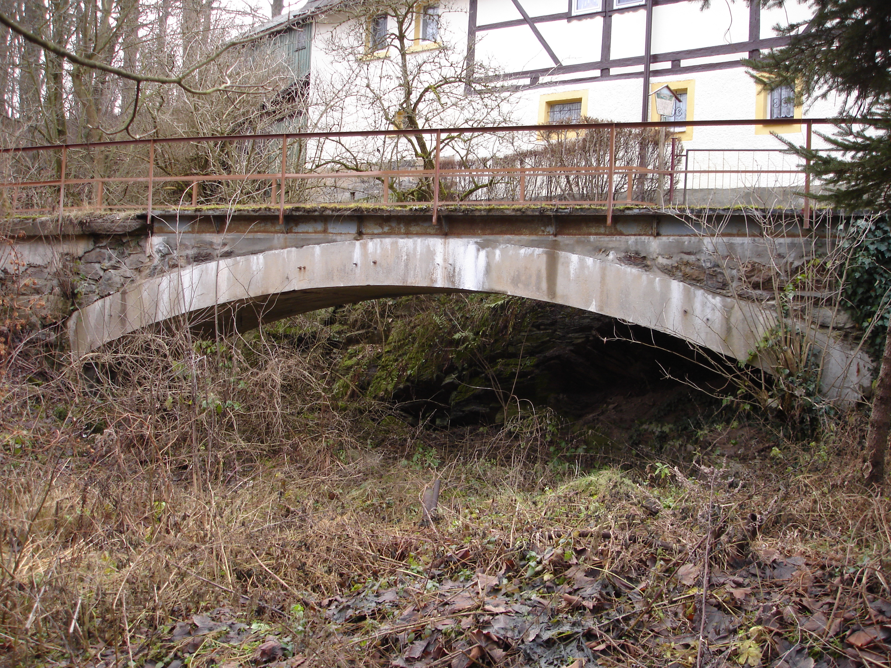 bridge in Seifersdorf, Weißeritztalbahn, Saxony, Germany